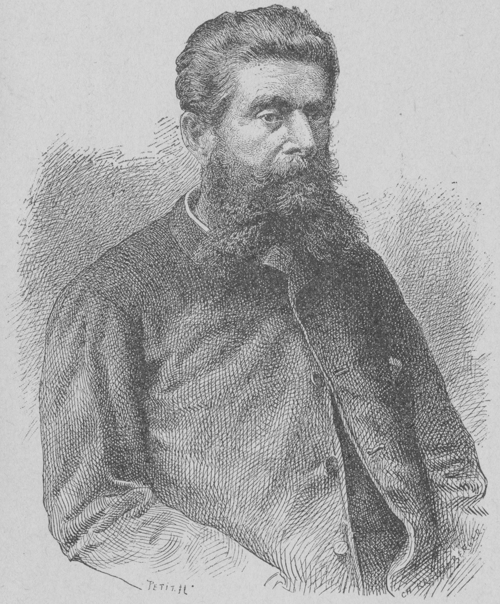 Wilhelm Junker, from the book "Stanleys expedition till Emin Paschas undsättning" (1890) Author: Alphonse-Jules Wauters Translator: Oscar Heinrich Dumrath